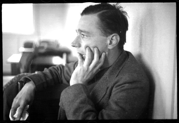 Walker Evans, profile, hand up to face. Walker Evans (November 3, 1903 – April 10, 1975) was an American photographer best known for his work for the Farm Security Administration documenting the effects of the Great Depression.